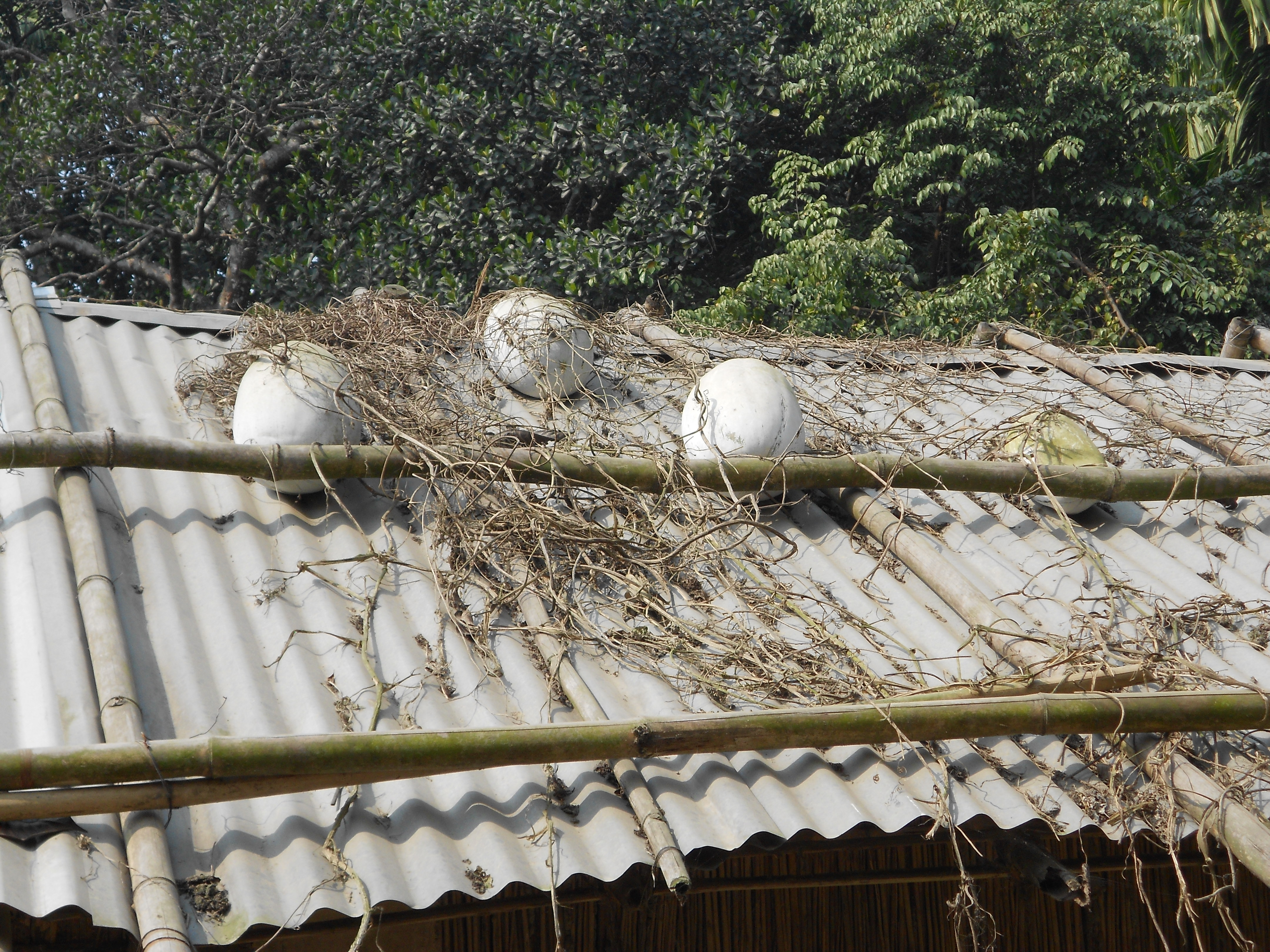 White gourd in Chokapara